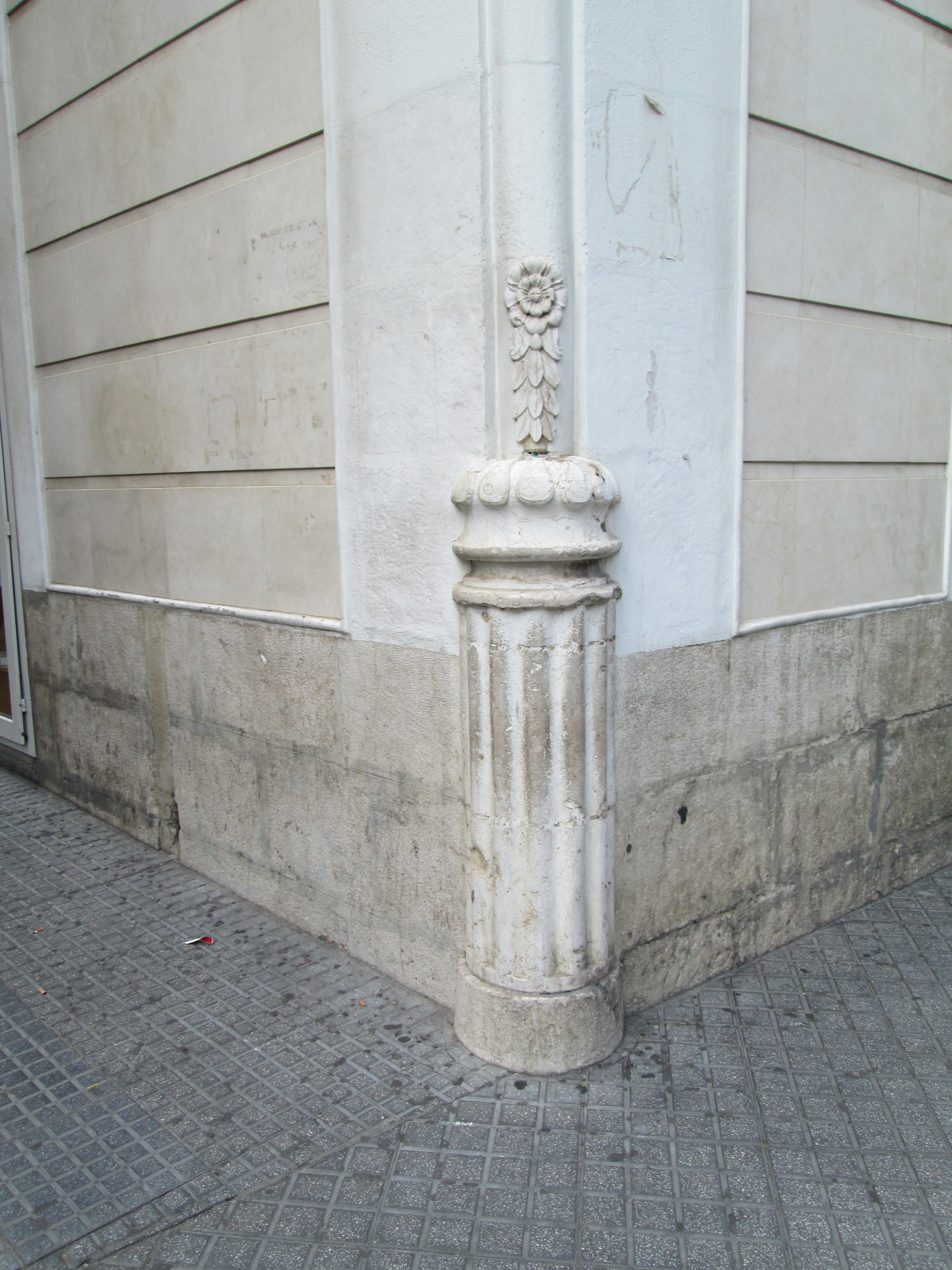 Malaga